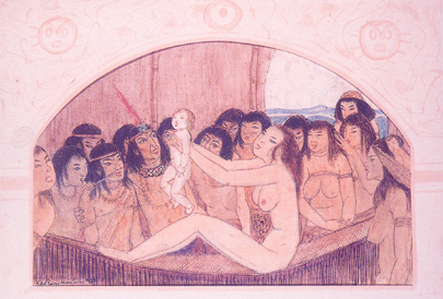 Watercolor Maní Oca, O Nascimento de Maní (The birth of Maní).